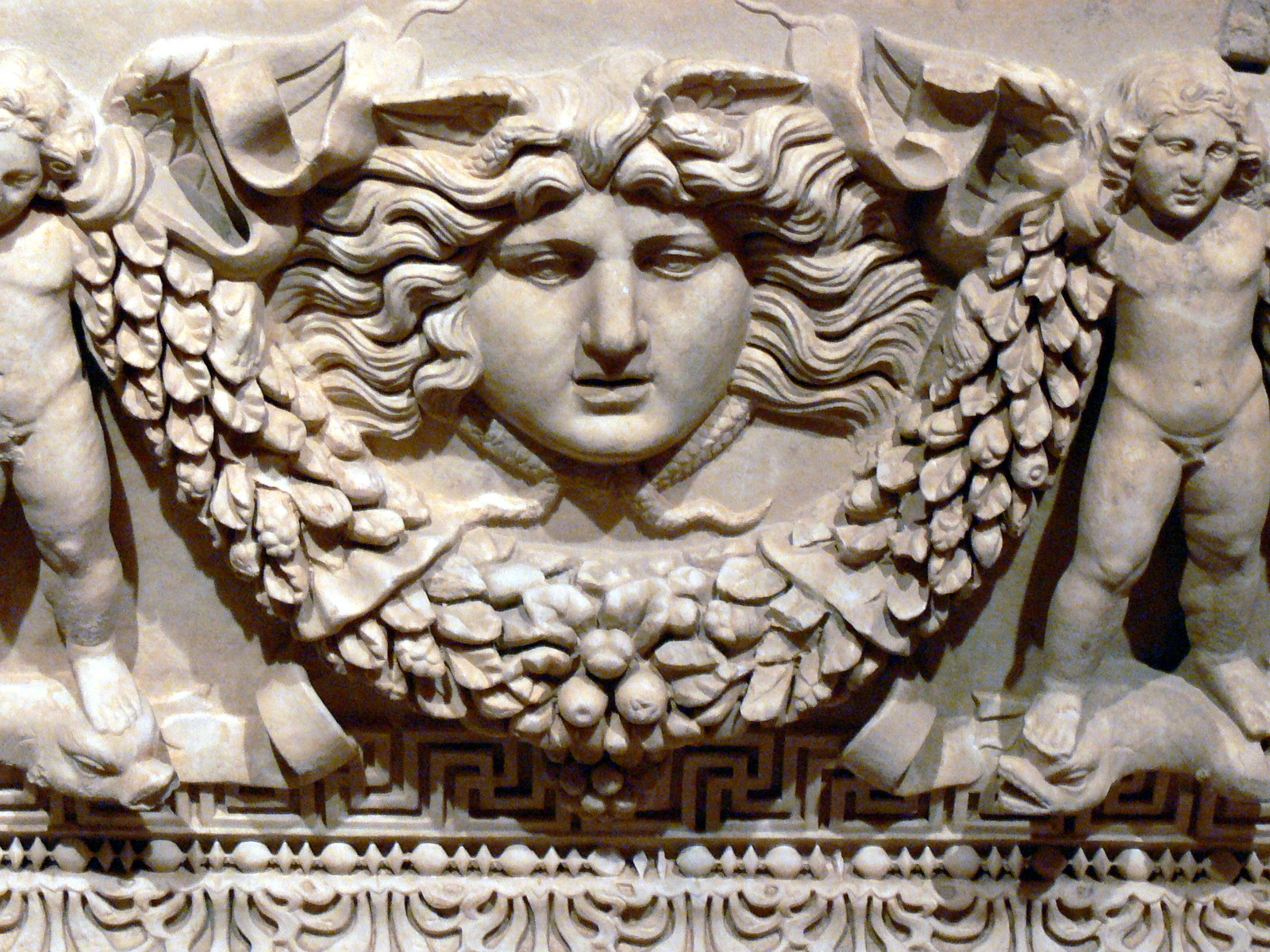 Antalya Archaeological Museum. Ancient Roman sarcophagus ( 2nd century AD ): Gorgoneion.